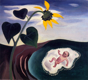 The Sunflower, painting, Betty Lane